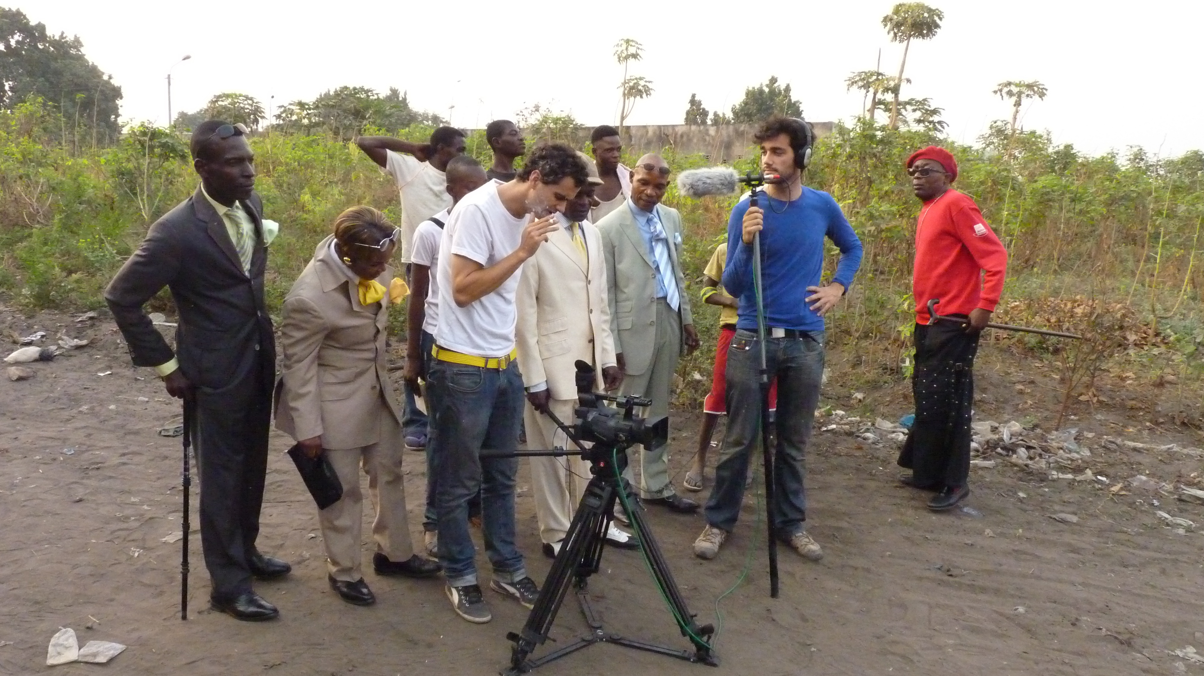 Making of Dimanche à Brazzaville